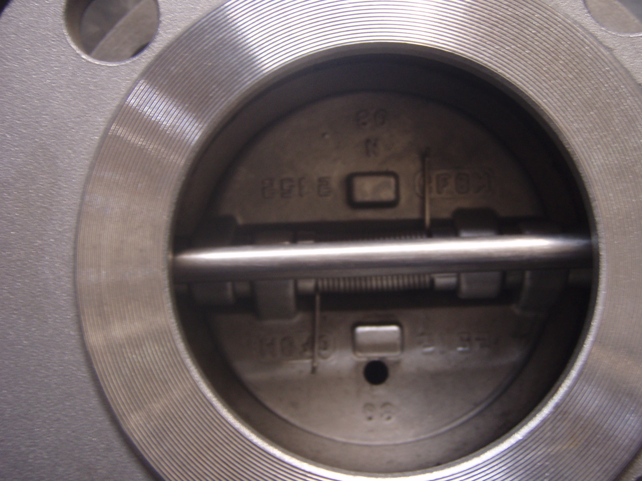 Inside a wafer check valve, lateral view. Valves and are generally made of plastic or steel, the latter being the most widely used in chemical and petrochemical applications. Steel grades range from the most common type, namely carbon steel, with standard stainless steel being the second most common. Stainless steel alloys, which include nickel or copper are used in applications that require higher corrosion or heat resistance. In such cases, the most commonly used valve configurations -- ball valves, gate valves, check valves, globe valves and butterfly valves -- are often forged or cast as duplex valves, super duplex valves, alloy 20 valves, monel valves, inconel valves, incoloy valves and 254 SMO valves (6Mo valves). Titanium valves are also used in some highly corrosive applications. Titanium is not a stainless steel alloy. Image taken for The Alloy Valve Stockist in Barcelona, Spain.